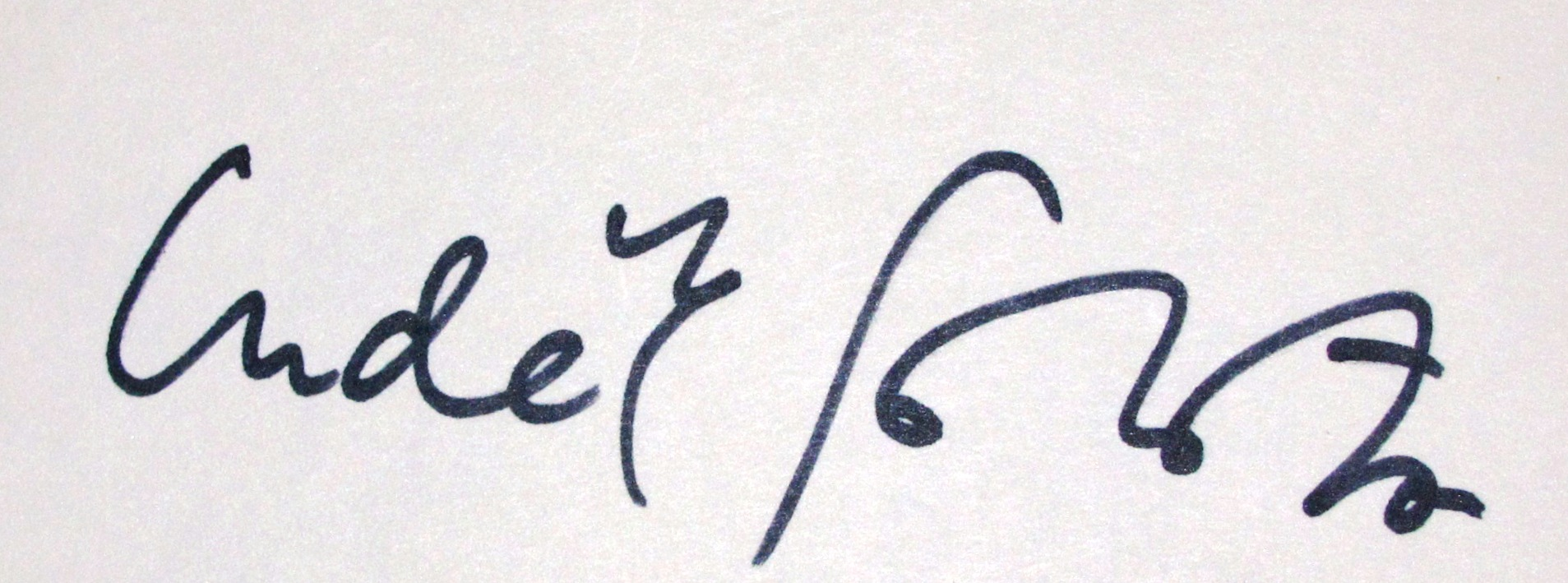 Signature of Luděk Sobota, Czech actor (1984)